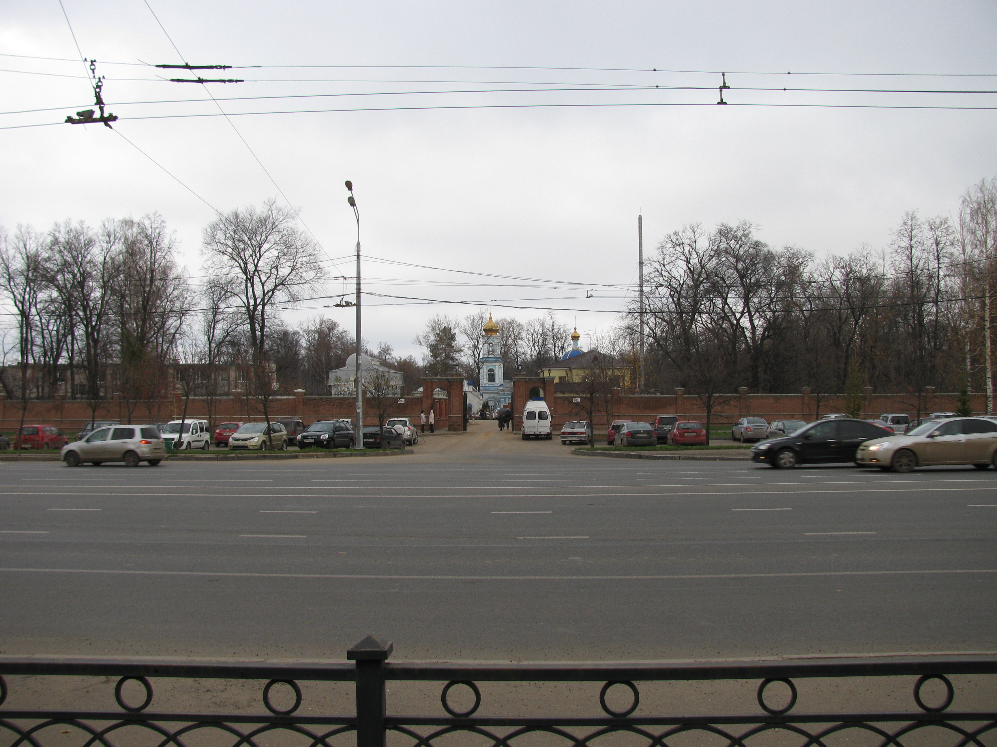 Nikolai Ershov Street in Kazan - Arskoe cemetery